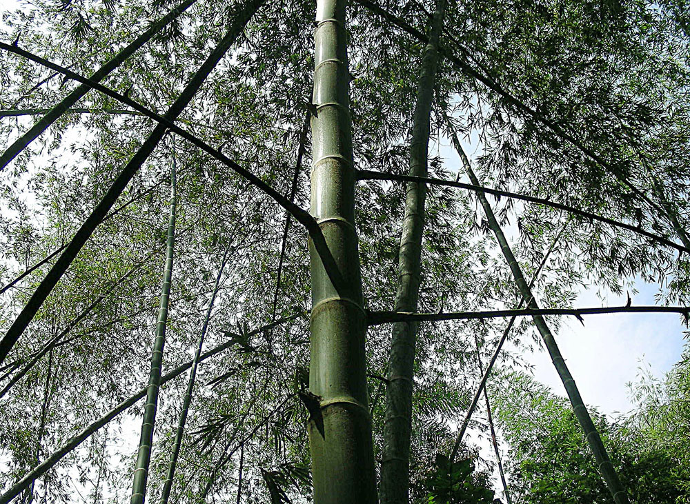 The Giant Neotropical Bamboo. Native to Ecuador and Colombia, photo from a plantation in the latter. In context at